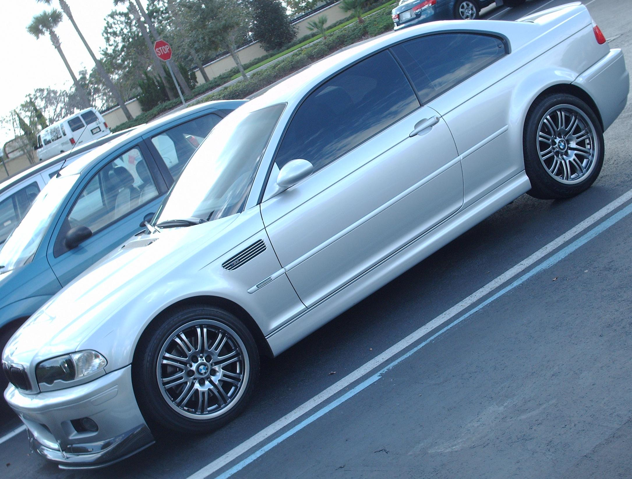 BMW E46 coupe photographed in Orlando, FL, USA.